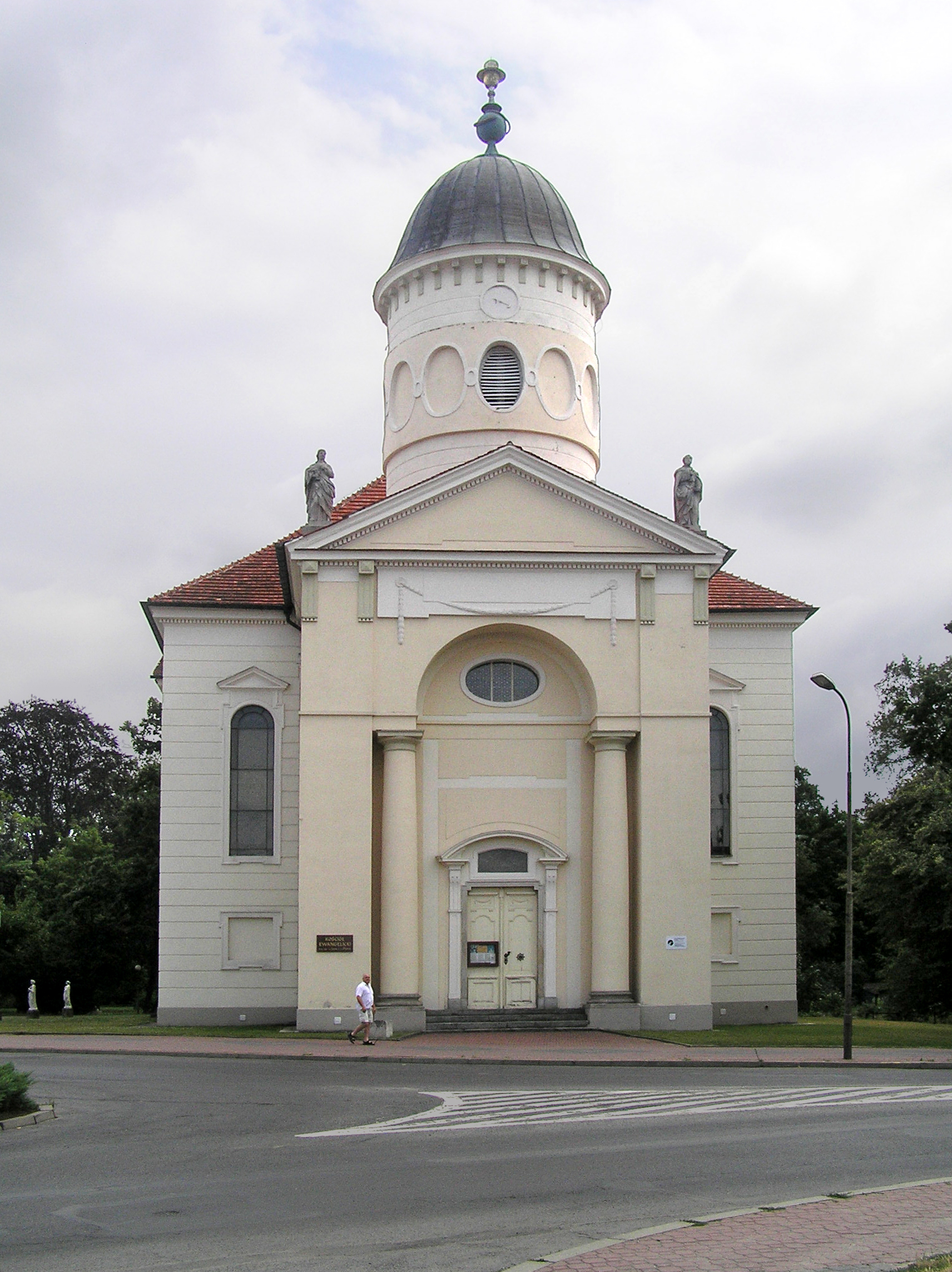 Syców, Lutheran Church (former church of the palace, destroyed in 1945.).